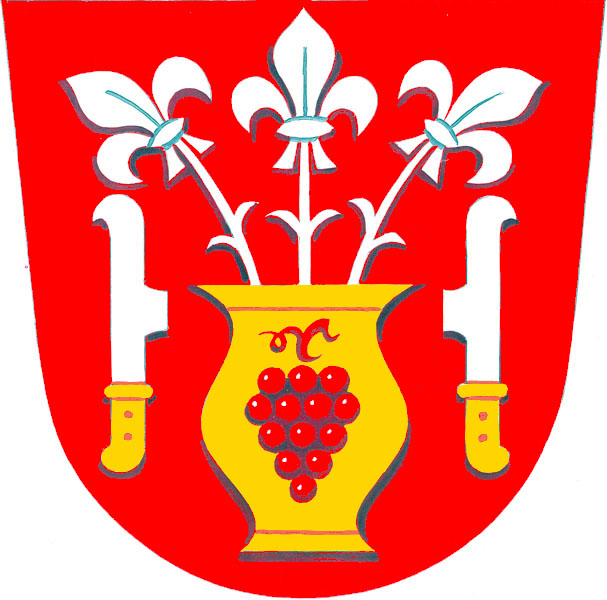 Municipal coat of arms of Nenkovice village, Hodonín District, Czech Republic.